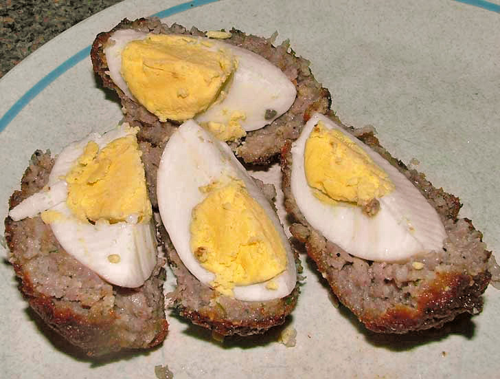 Snapshot of my first attempt at deep-frying scotch eggs, quartered. Jimmy Dean Original Pork Sausage. Generic Italian bread crumbs. One organic egg, beaten. One organic egg, slow boiled at 190F for 30 minutes